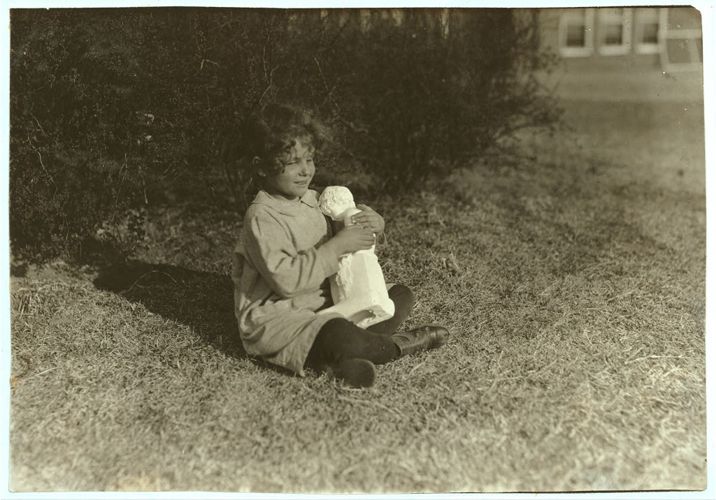 Blind child making the acquaintance of a bit of statuary at Oklahoma School for the Blind. See Ellis report.] Location: [Muskogee, Oklahoma] / [Lewis W. Hine